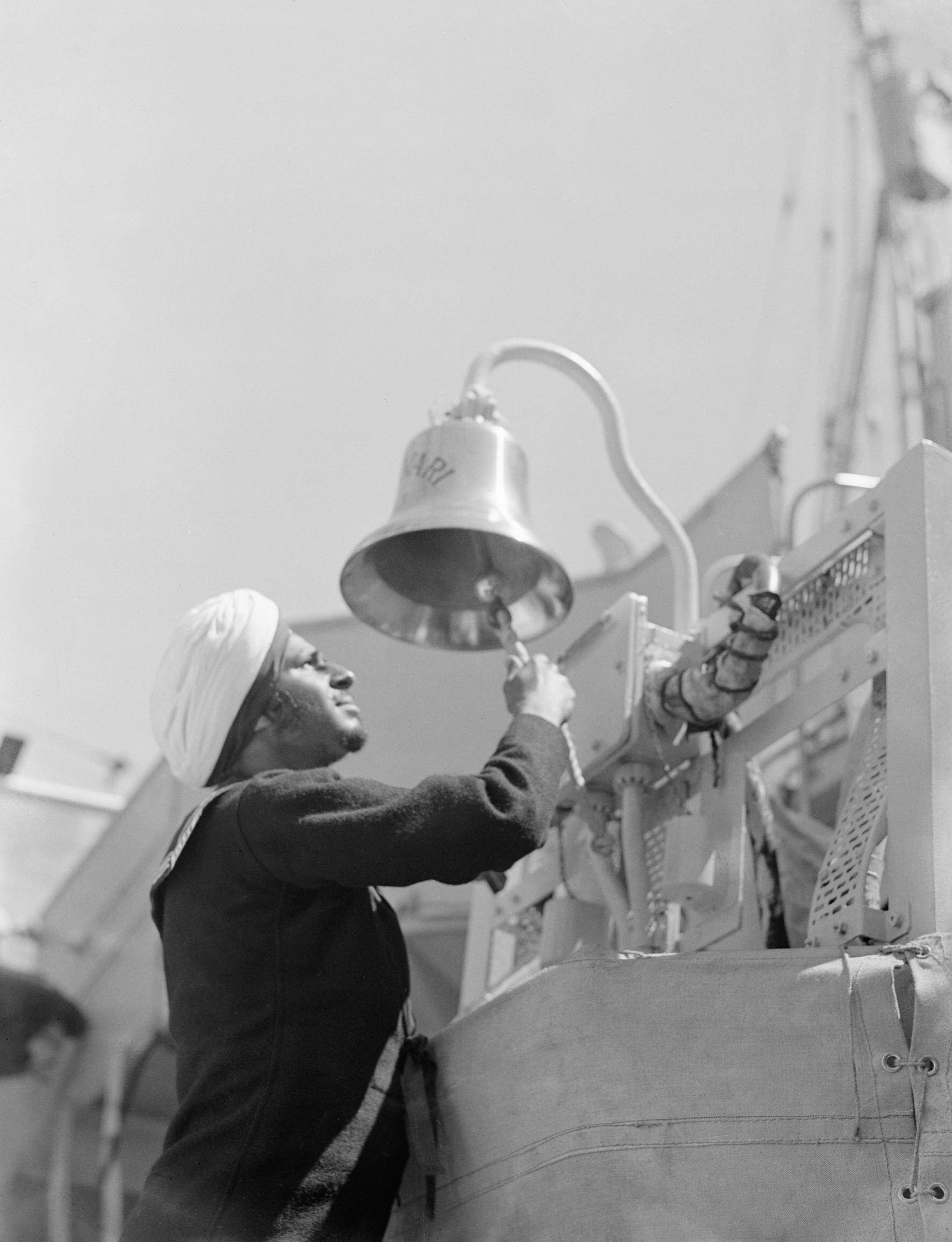 India's Newest Ship Commissioned. 22 June 1943, Woolston, Southampton. the Commissioning of the Sloop Hmis Godavari. Quartermaster striking off 8 bells; Leading Seaman Harjit Singh (from Punjab) the only Sikh rating aboard, probably the only Sikh rating in the RIN.